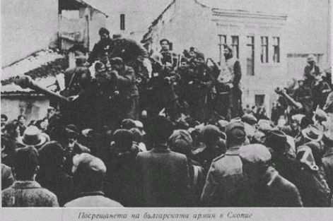 Greeting of Bulgarian troops on November 14, 1944 in Skopje.